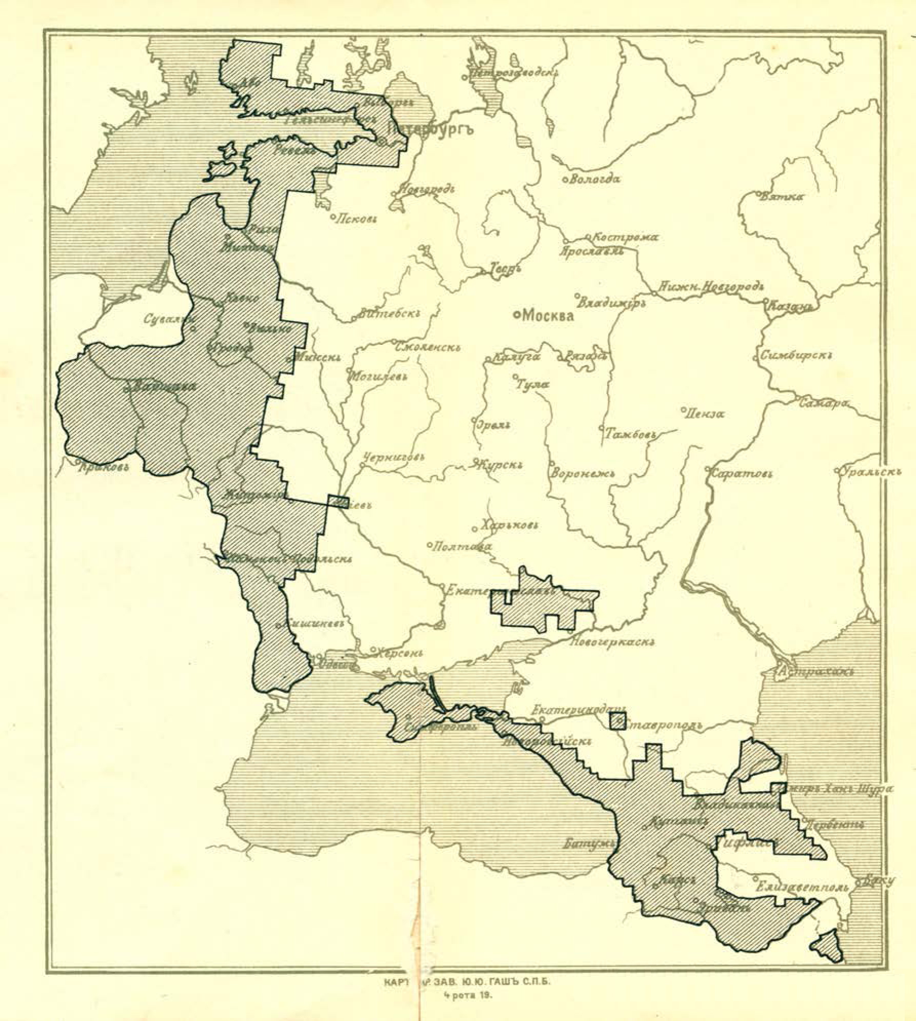 Map of the Russian Imperia 1 verst